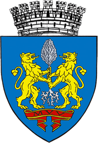 Coat of arms of Ploiești, Prahova County, Romania.